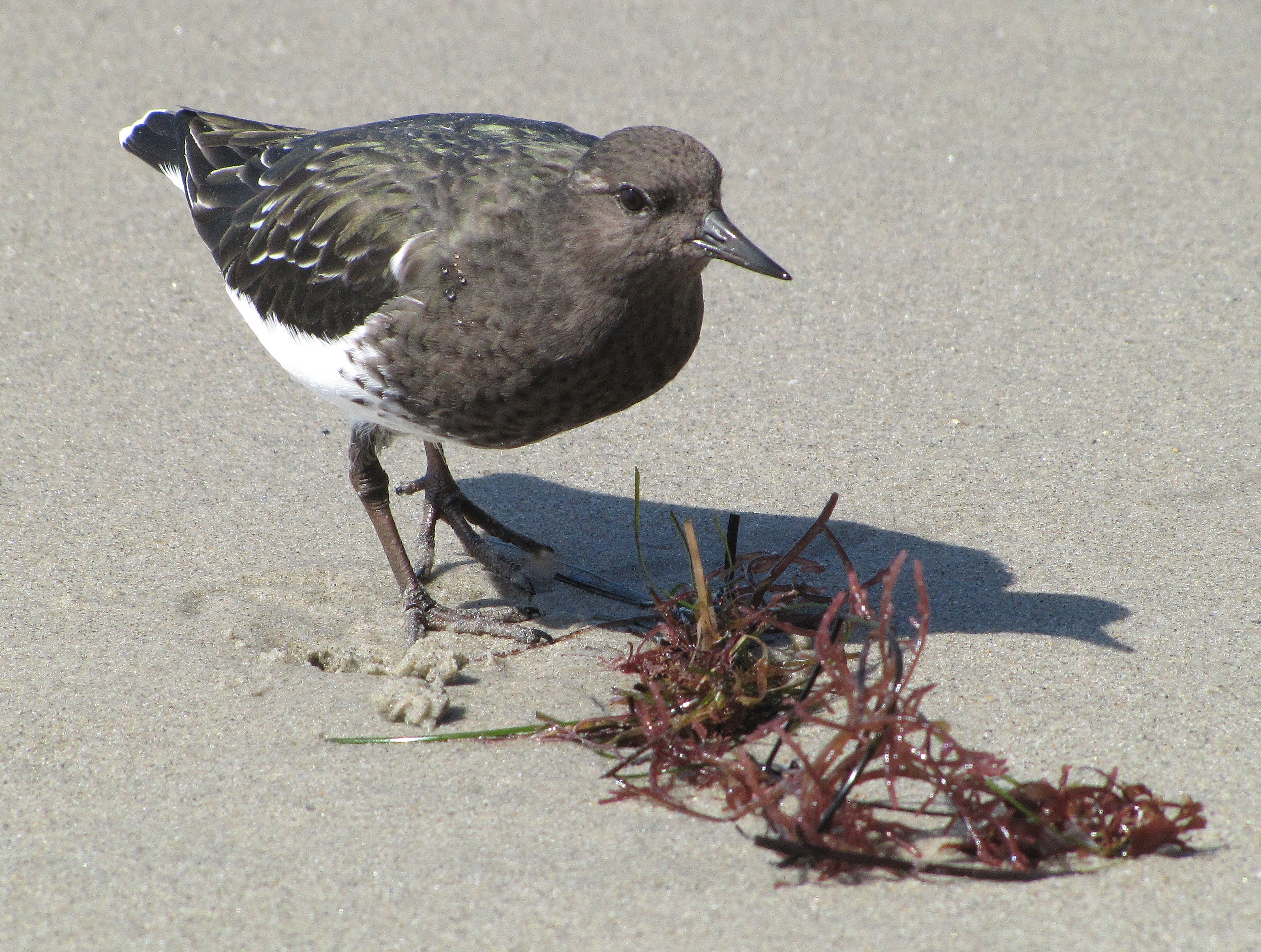 Black turnstone - Arenaria melanocephala Location: North end of Main Beach, Laguna Beach, CA, USA Identification: National Geographic Field Guide to the Birds of North America, 4th Edition, page 170 Comment: Twenty or so black turnstones were observed picking through the seaweed and other detritus that had washed ashore in a recent storm. The black turnstones were not true to their name in that they did not use their beaks as a tool to turn over small items to search for food underneath them as did the few ruddy turnstones that were picking through the detritus with them. Several of the black turnstones had the hint of green coloration that is apparent in this image. Whether the green is visible or not seems to be dependent on the angle of the illumination and the angle that the bird is observed at.